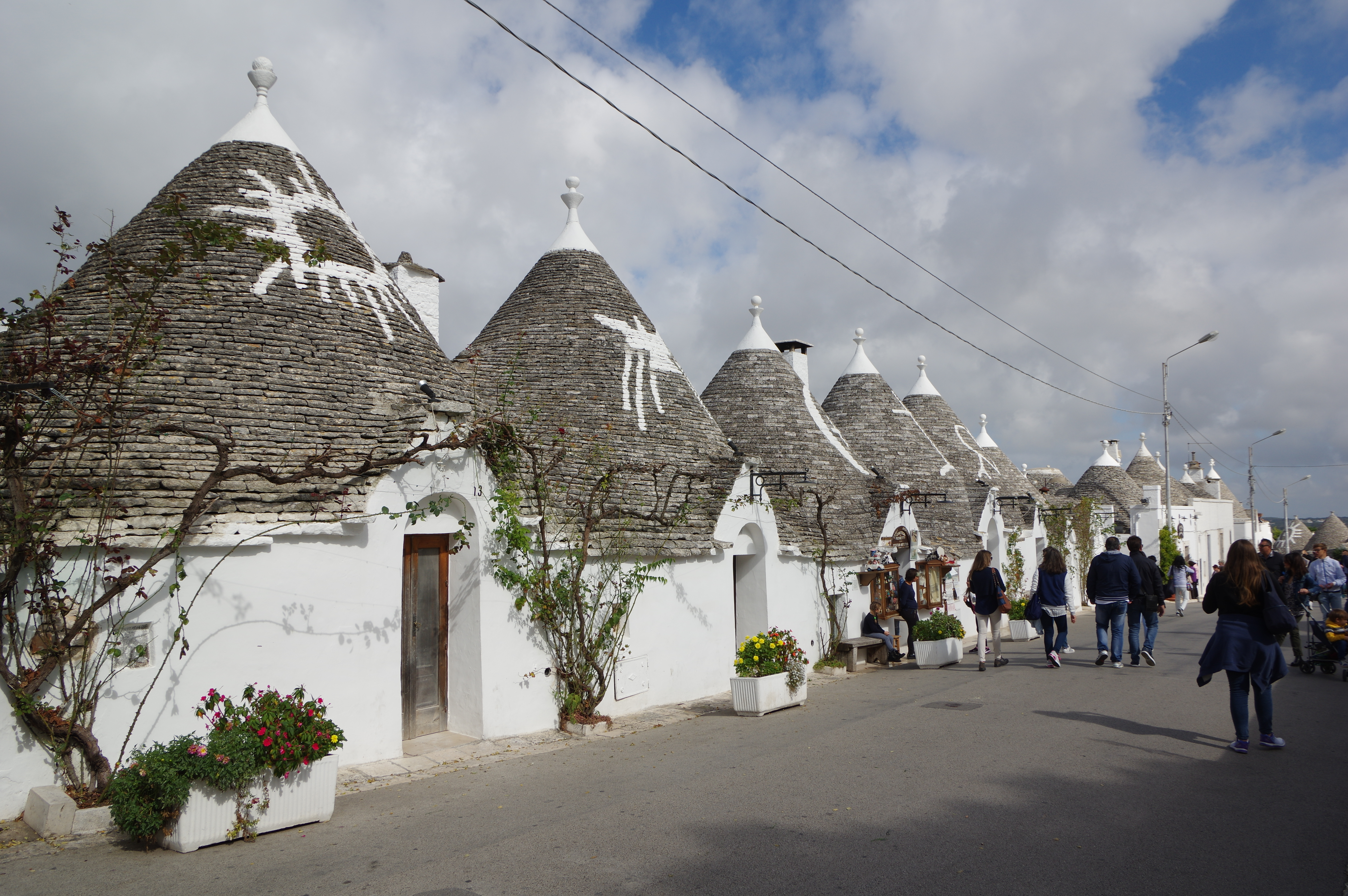 Italy, Alberobello, Trullo (Trulli)